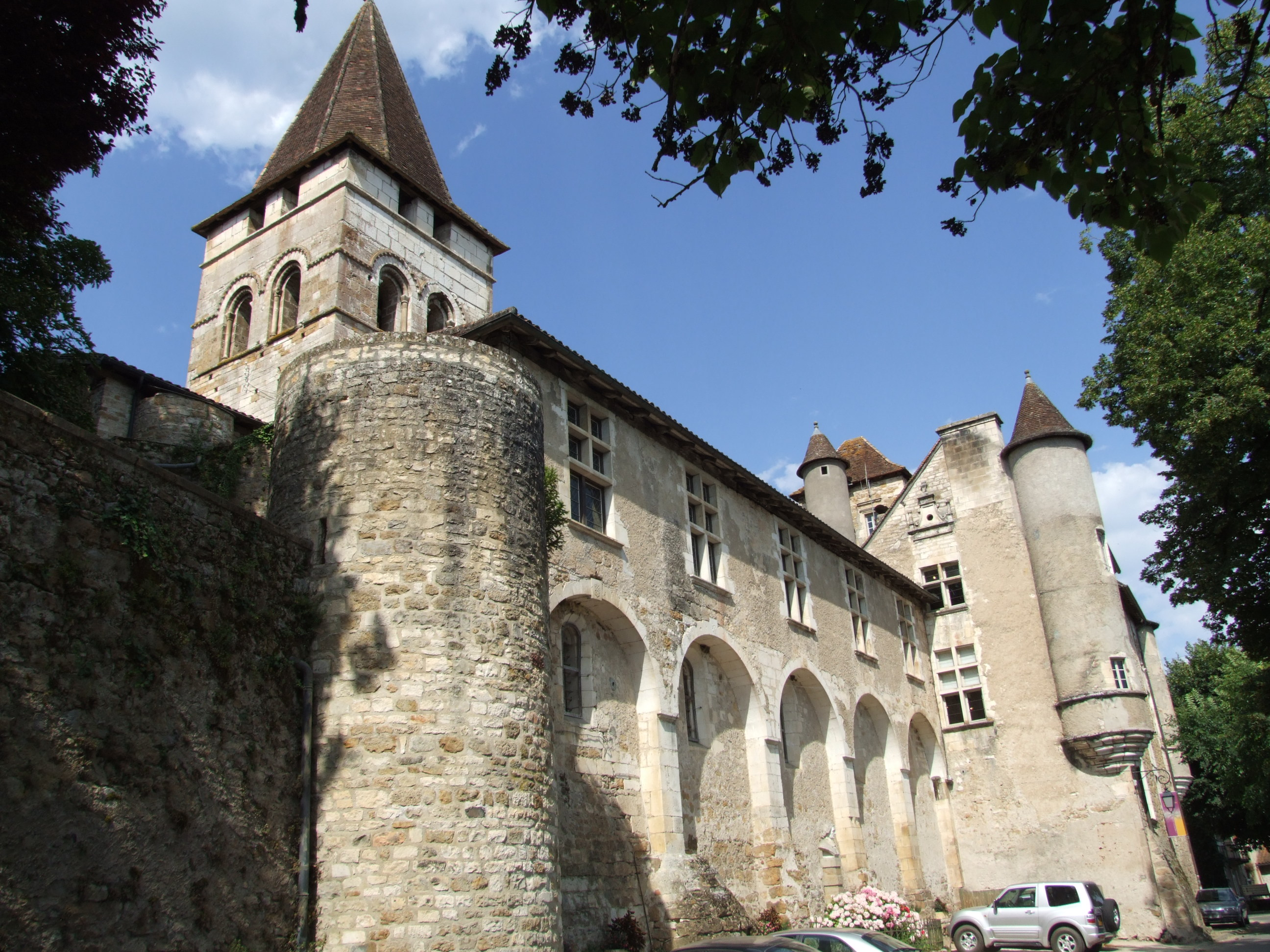 Carennac, Lot, FRANCE